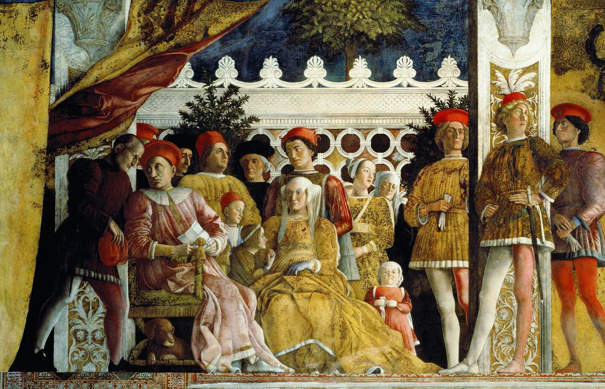 north wall of the Camera degli Sposi in the north east tower of the Castel San Giorgio, Mantua